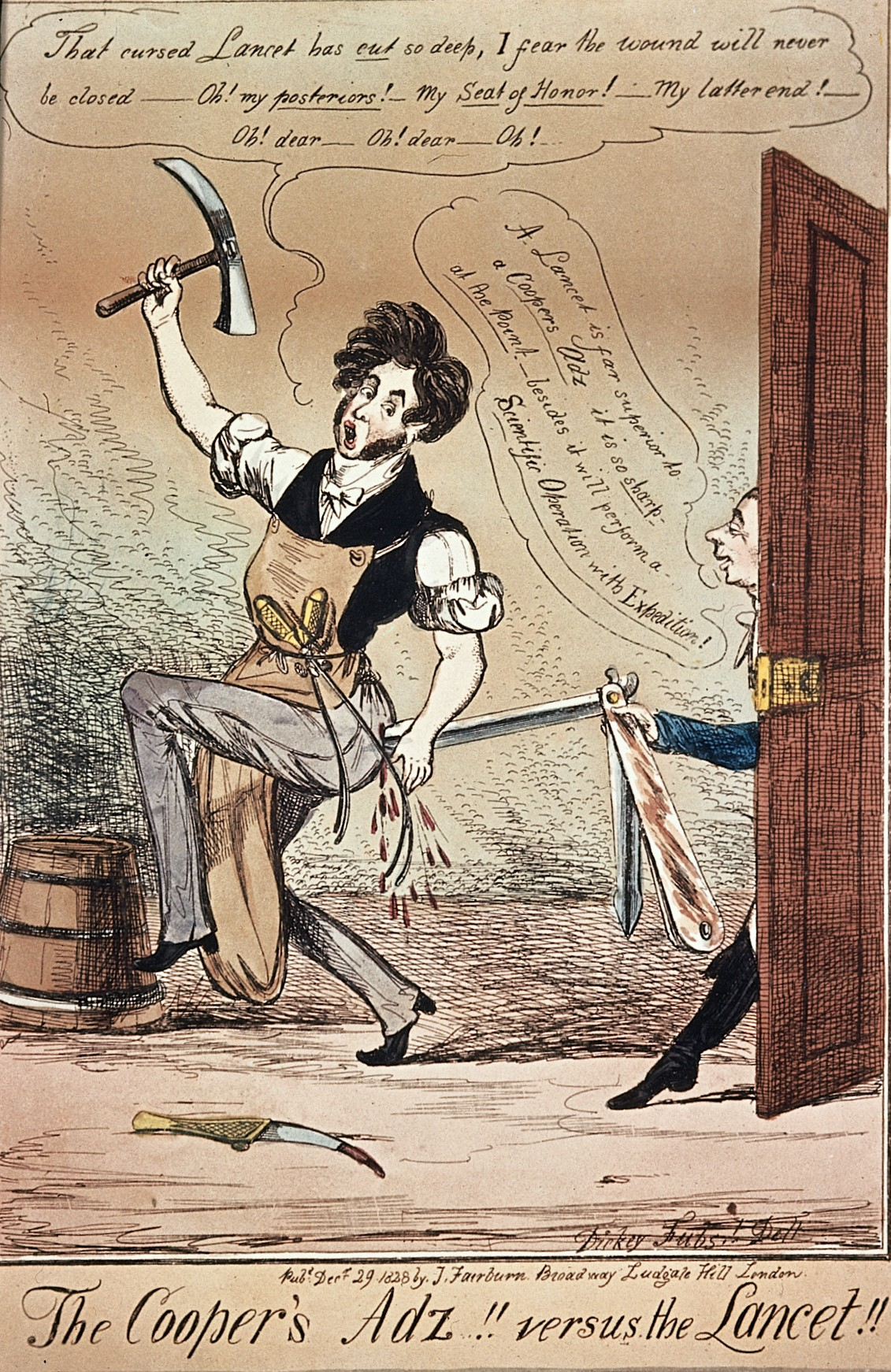 'The Cooper's Adz versus the Lancet' Bransby Blake Cooper being poked in the posteriour by a lancet, possibly Thomas Wakley, founder of the medical journal The Lancet. It reads: That cursed Lancet has cut so deep, I fear the wound will never be closed -- Oh! my posteriors! - My Seat of Honor! -- My latter end! -- Oh! dear -- Oh! dear -- Oh! A Lancet is far superior to a Coopers Adz it is so sharp - at the Point - besides it will perform a Scientific Operation with Expedition! Pub Dec 29 1828 by J. Fairburn. Broadway Ludgate Hill London The Cooper's Adz!! versus the Lancet!! Iconographic Collections Keywords: cooper, bransby blake, 1792-18; etchings; portrait prints; Satire; Cartoons; Bransby Blake Cooper; Thomas Wakley; Dickey Fubs